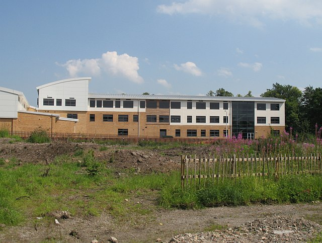 Uddingston Grammar School The new building in the latter days of construction. It finally opened in January 2009. The location has proved controversial due to its riverside site.